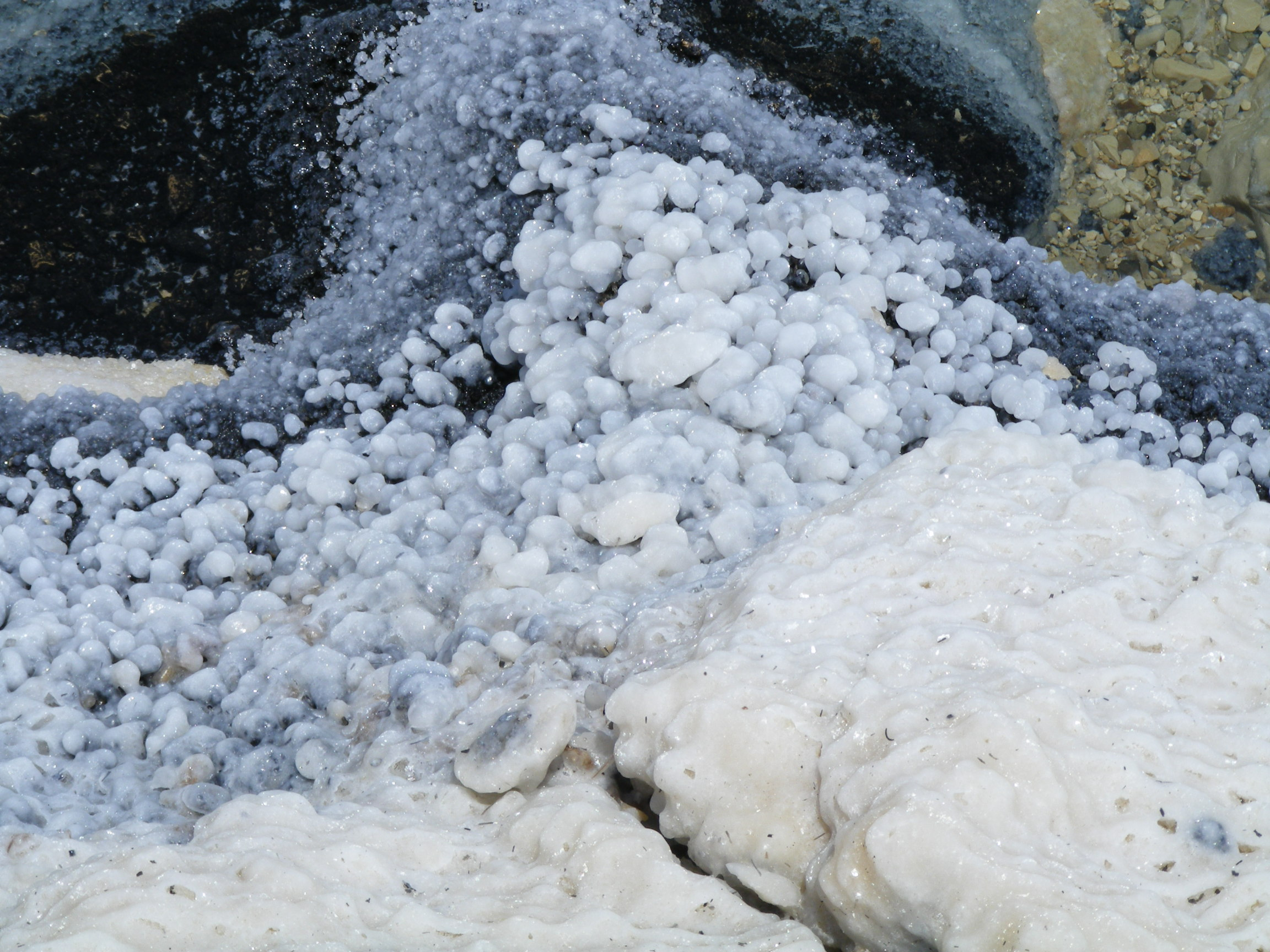 Salt covered stones at Dead Sea